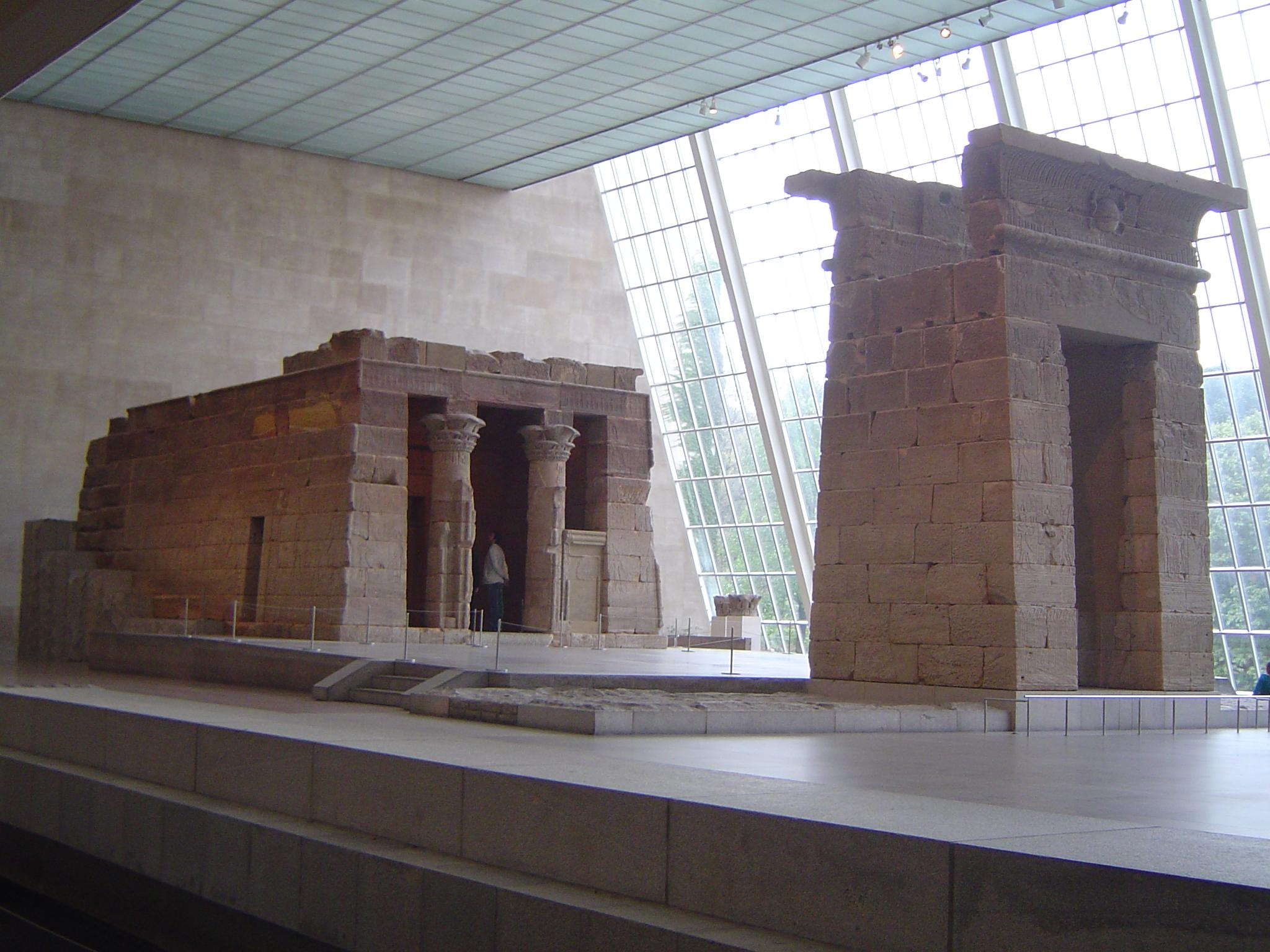 Metropolitan Museum, New York, USA